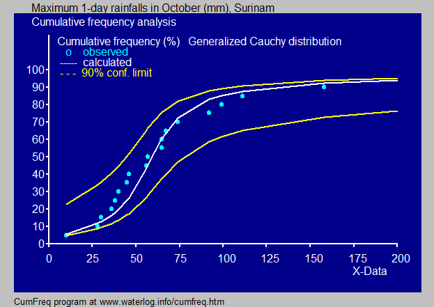 Cauchy probability distribution fitted to monthly maximum 1-day rainfalls